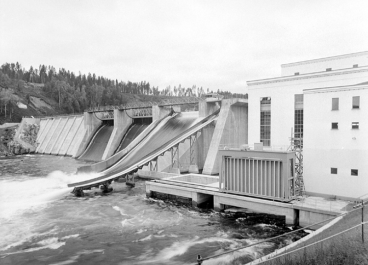 The log flume in Granforsen 1953